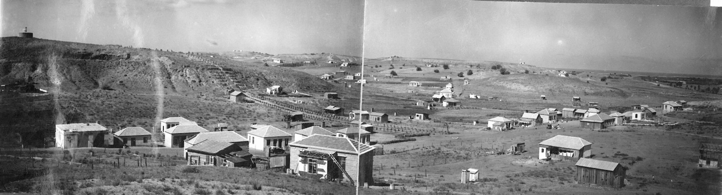 General view of Bnei Brak.